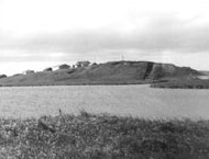 The Chaluka Site, an archaeological site located near the community of Nikolski in the Aleutians West Census Area of the U.S. state of Alaska. A large mound with Aleut archaeological findings, it was designated a National Historic Landmark on 29 December 1962.